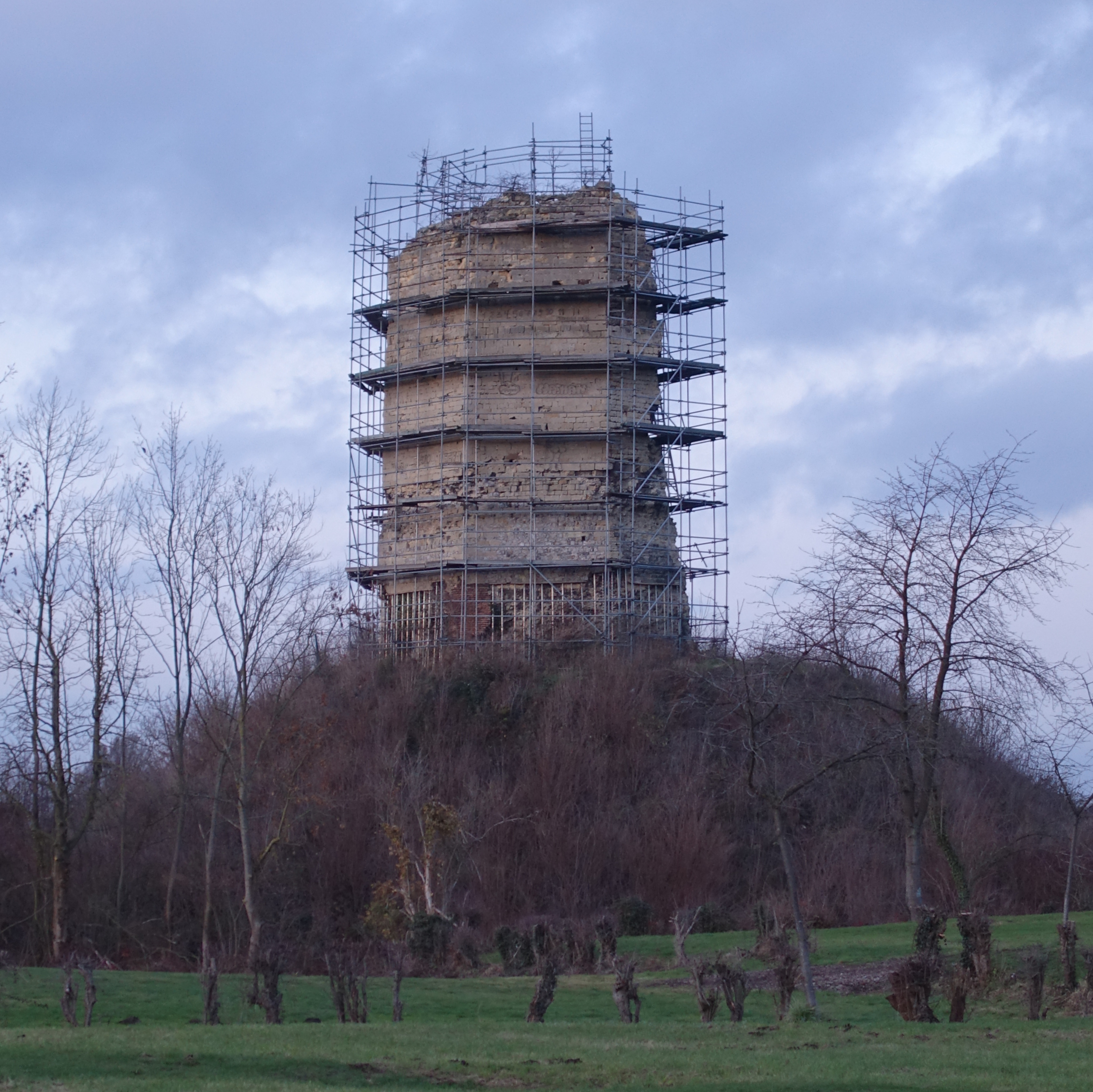 Brustem (Belgium): Ruins of the Motte-and-bailey